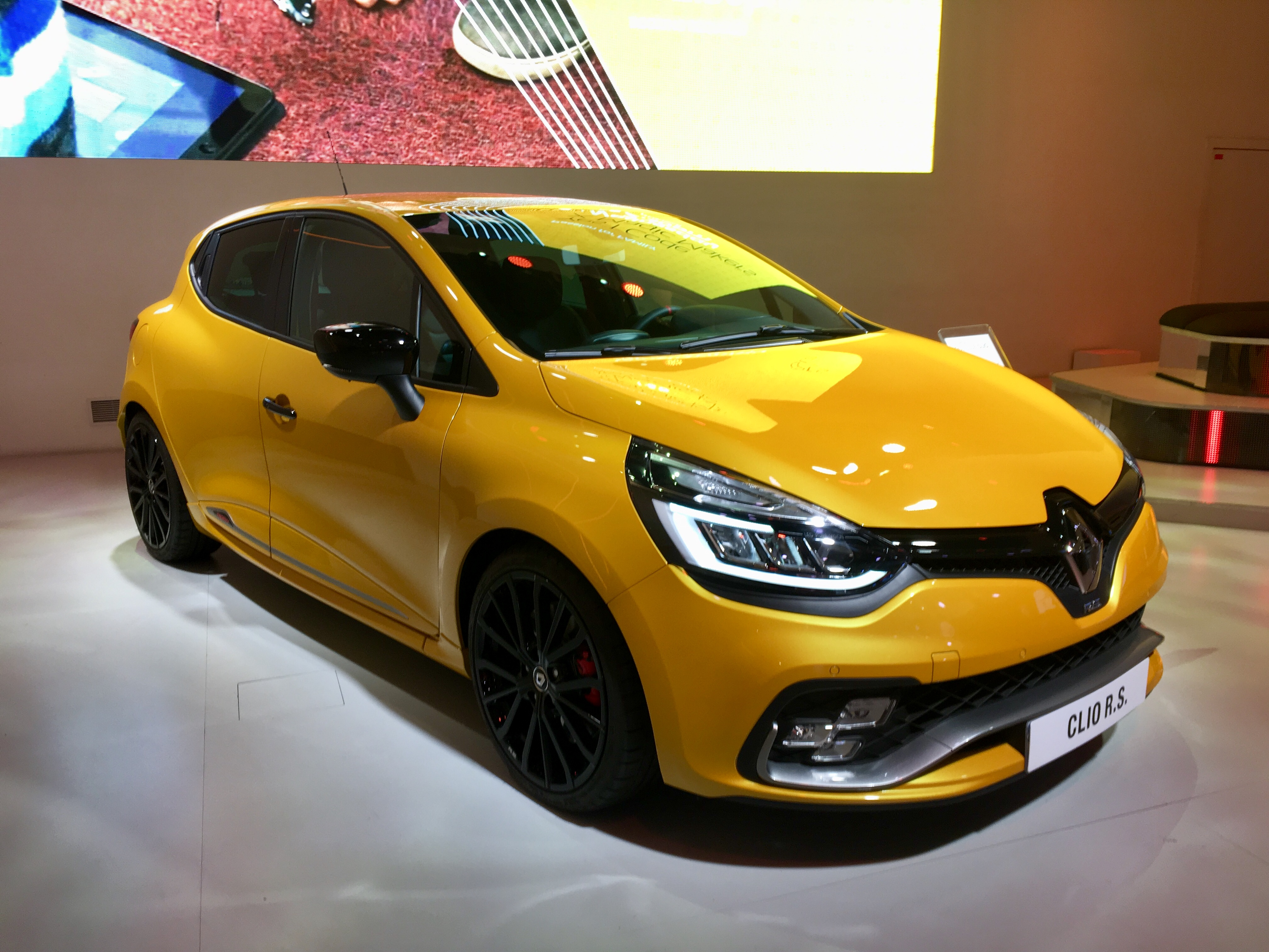 Clio RS